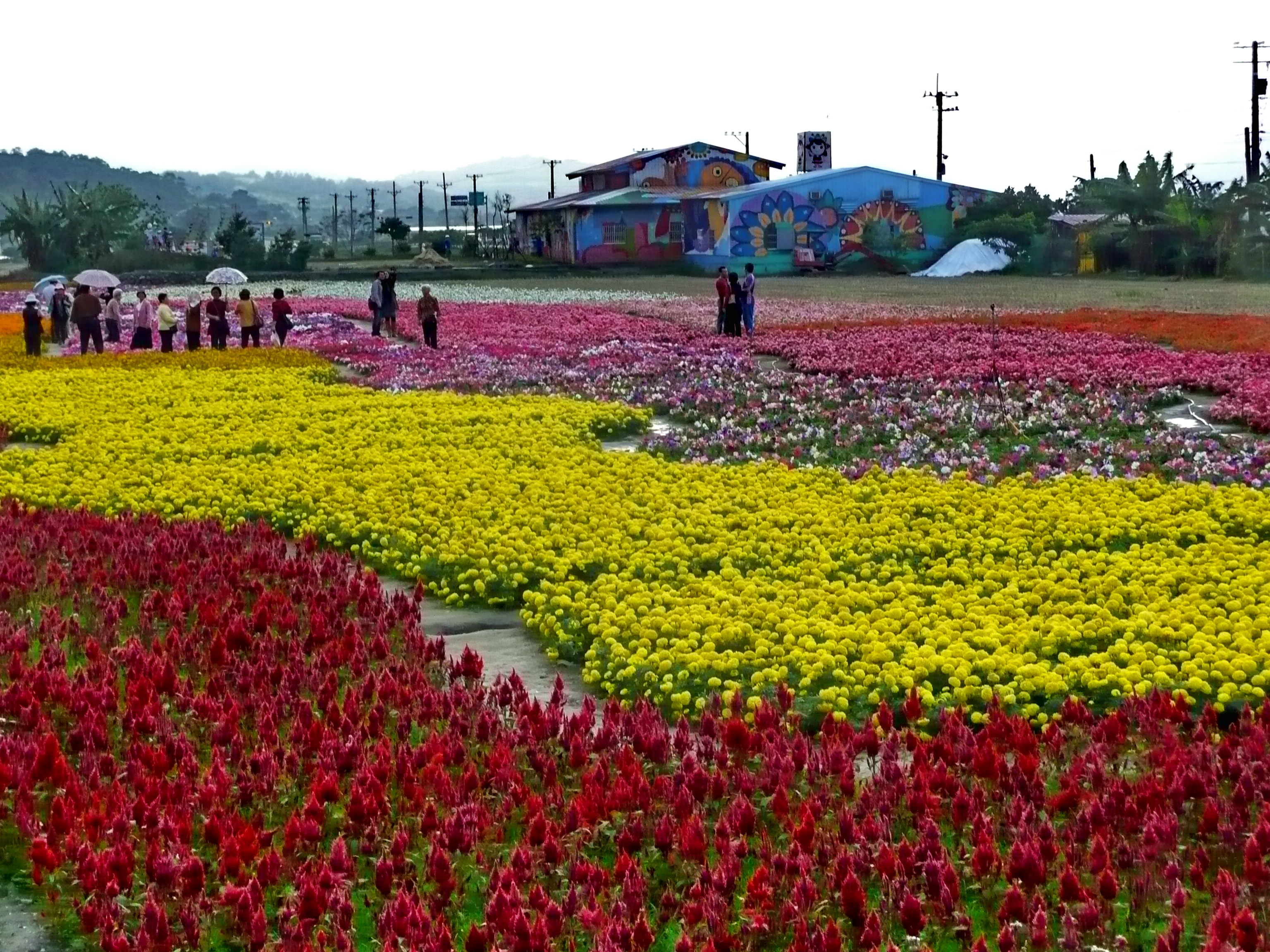 富里花海 Fuli Flower Carpet